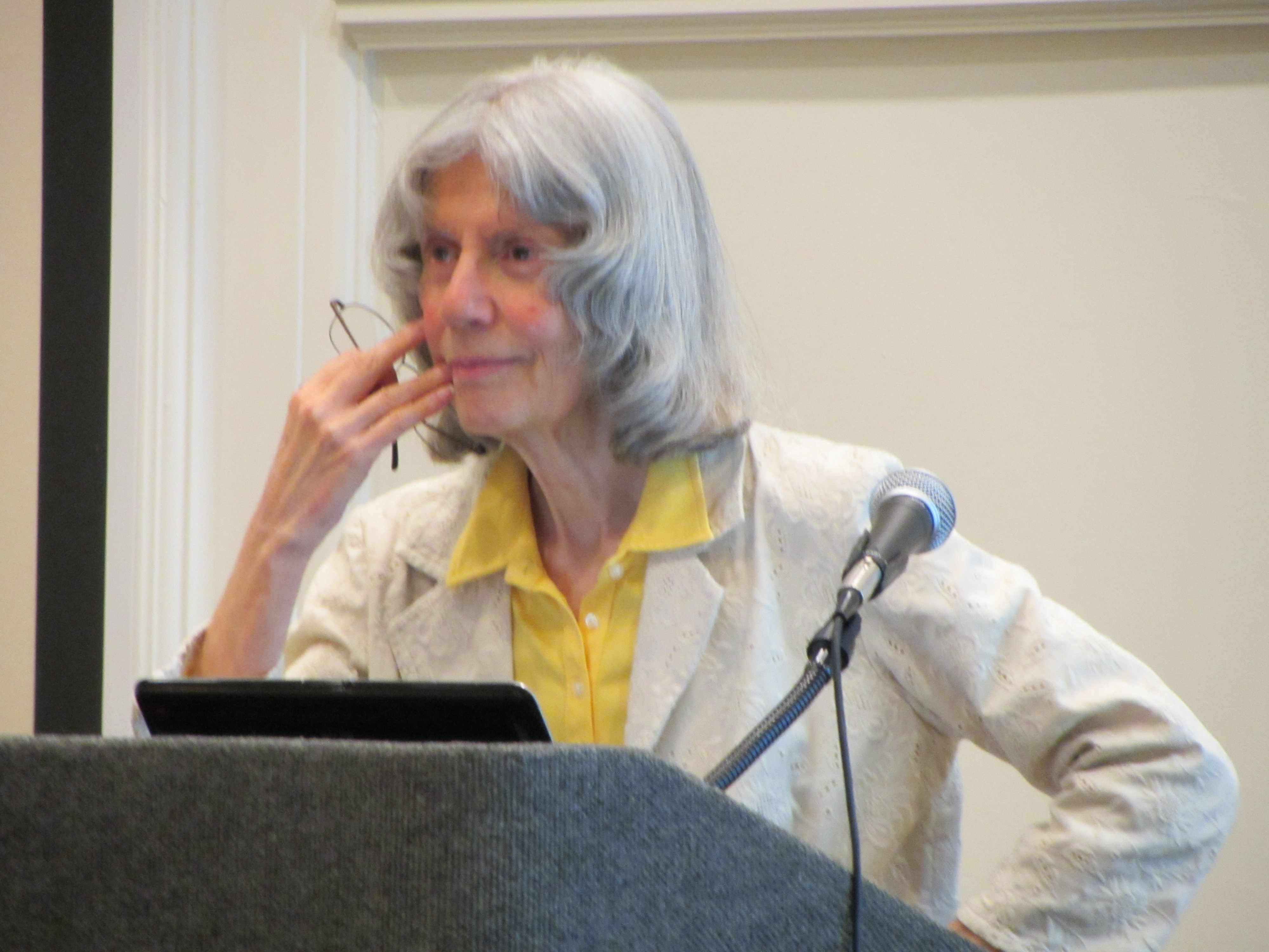 Portrait of Eleanor Rosch